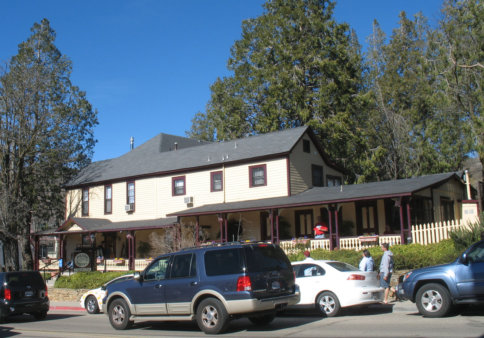 The NRHP-listed Robinson Hotel in Julian, California.